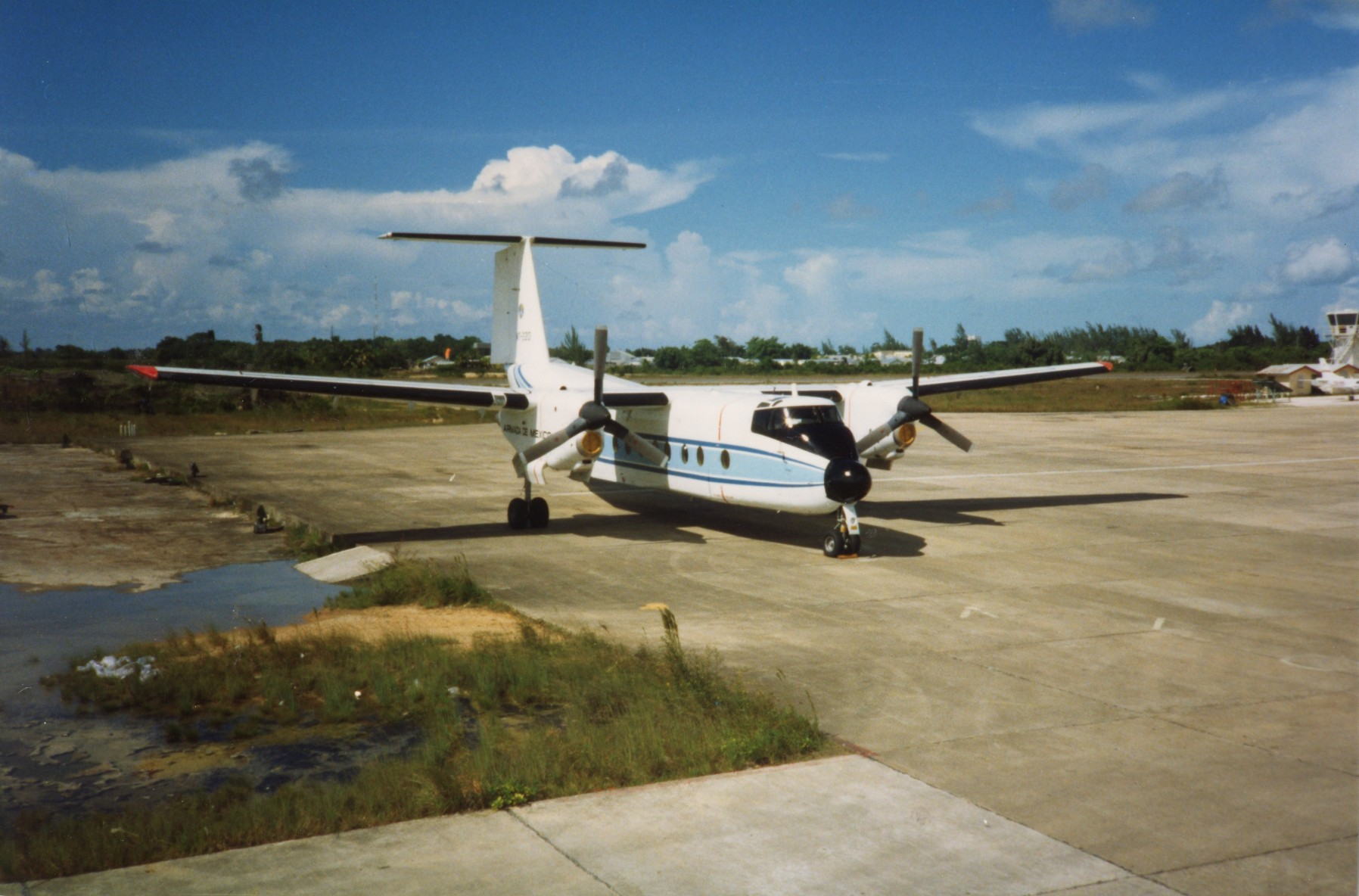 A Mexican Navy DHC-5D Buffalo at Belize International Airport